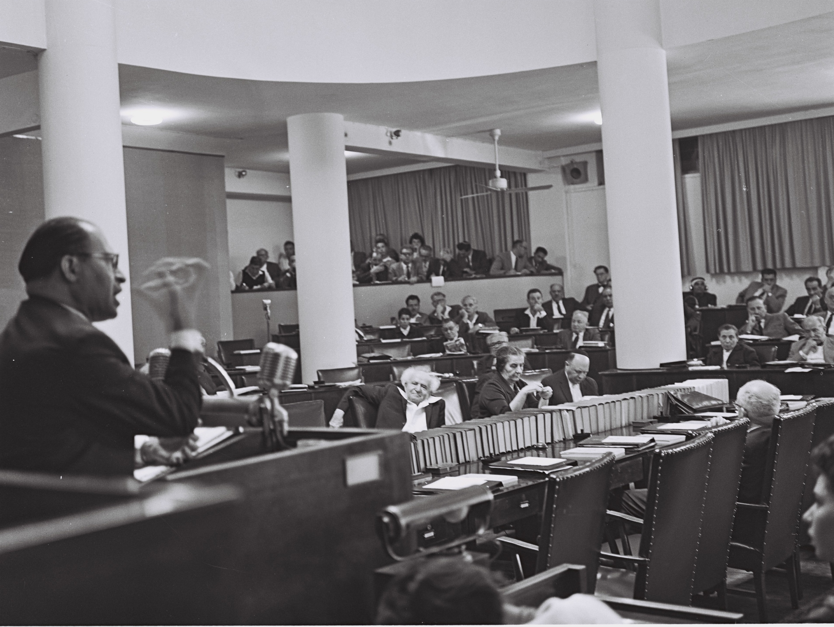 Mr. Menahem Begin of Herut explains to the Knesset his party's stand on the new government.